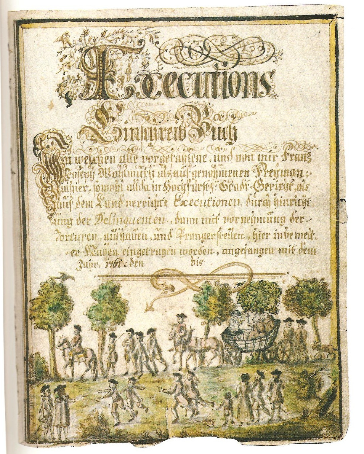 Title Page